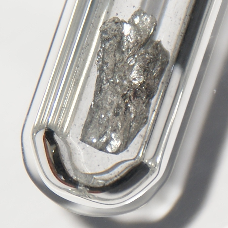 Ultrapure metallic arsenic under argon, 1-2 grams. Original size of each piece in cm: 0.5 x 1